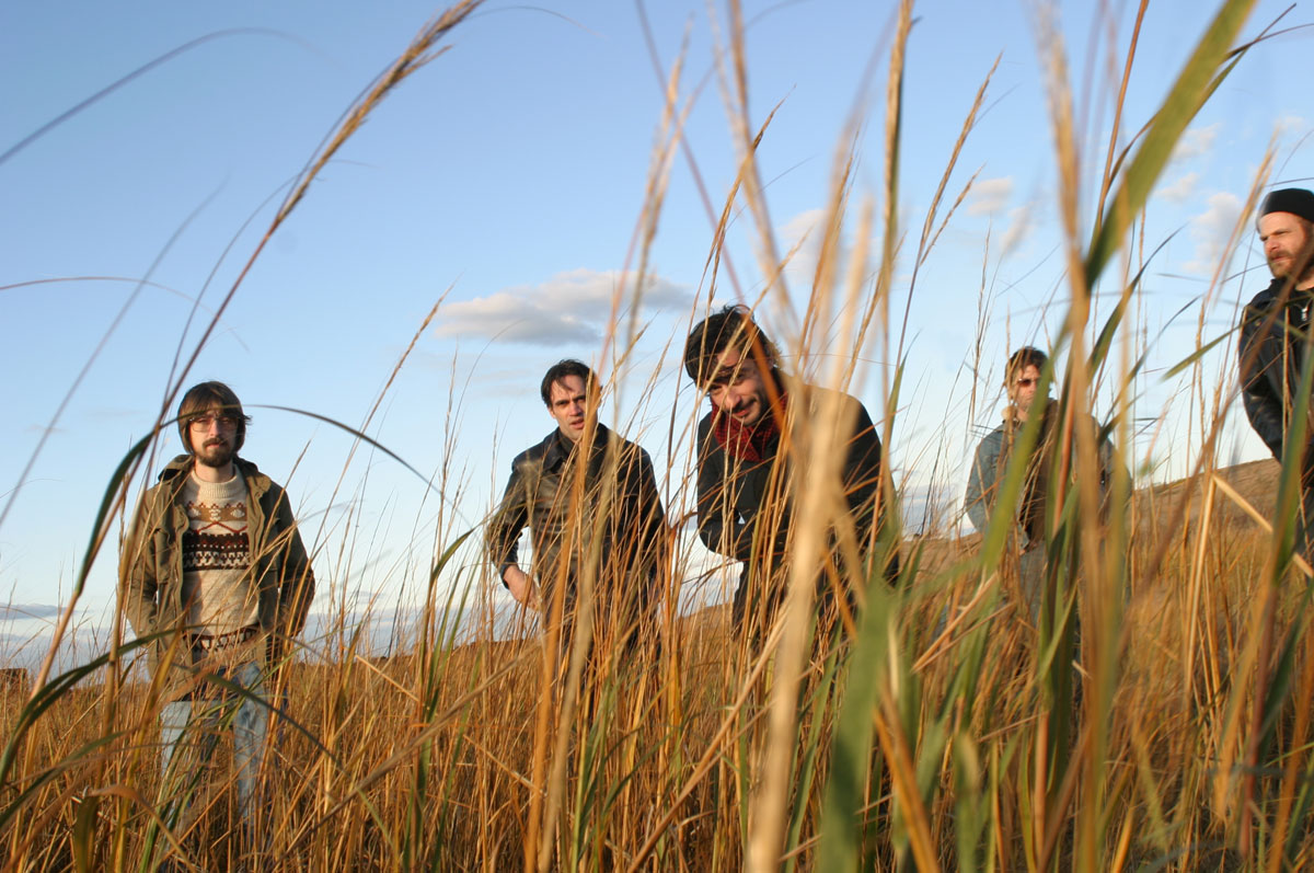 photo by Alexandra Marvar